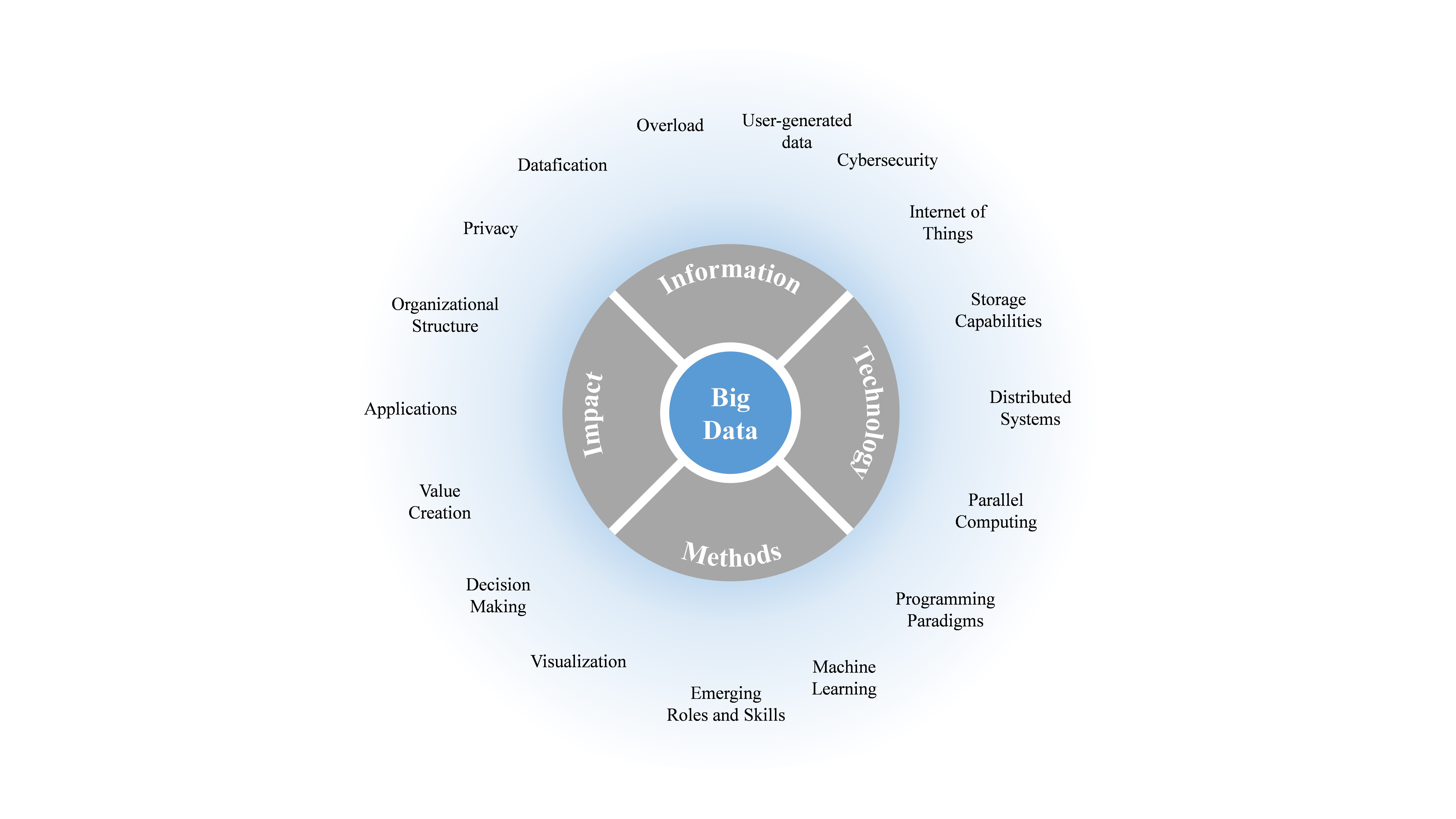 Big Data ITMI (Information, Technology, Methods, Impact) conceptual model. Source: De Mauro, Andrea, Marco Greco, and Michele Grimaldi. "A formal definition of Big Data based on its essential features." Library Review 65.3 (2016): 122-135.